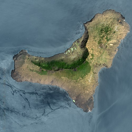 El Hierro by SPOT Satellite